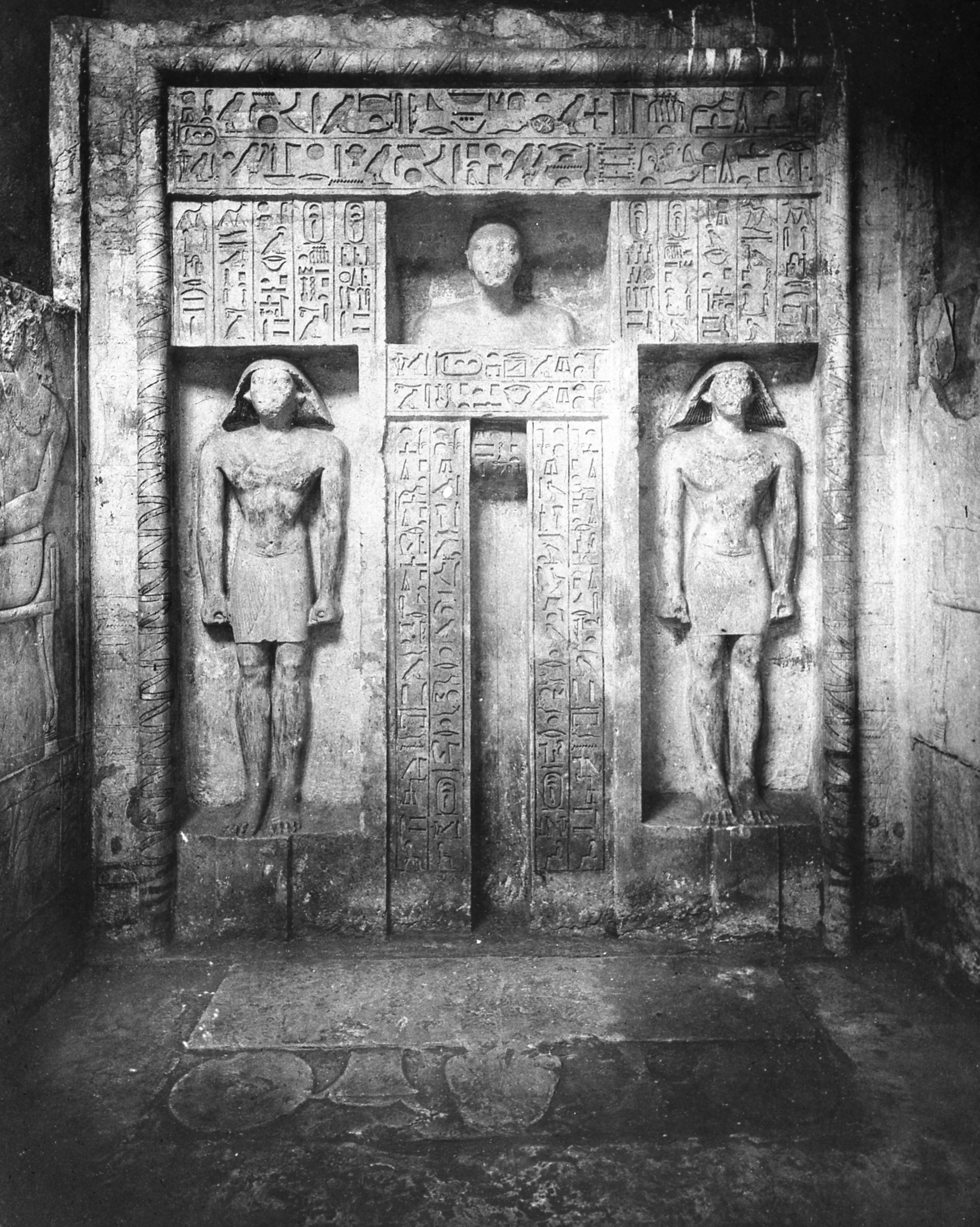 Lantern Slide Collection: Views, Objects: Egypt. Sakkara [selected images]. View 01: Chapel, Tomb of Nefer-Seshem-Ptah. Sakkara. 6th Dynasty., n.d. Brooklyn Museum Archives (S10|08 Sakkara, image 9947).